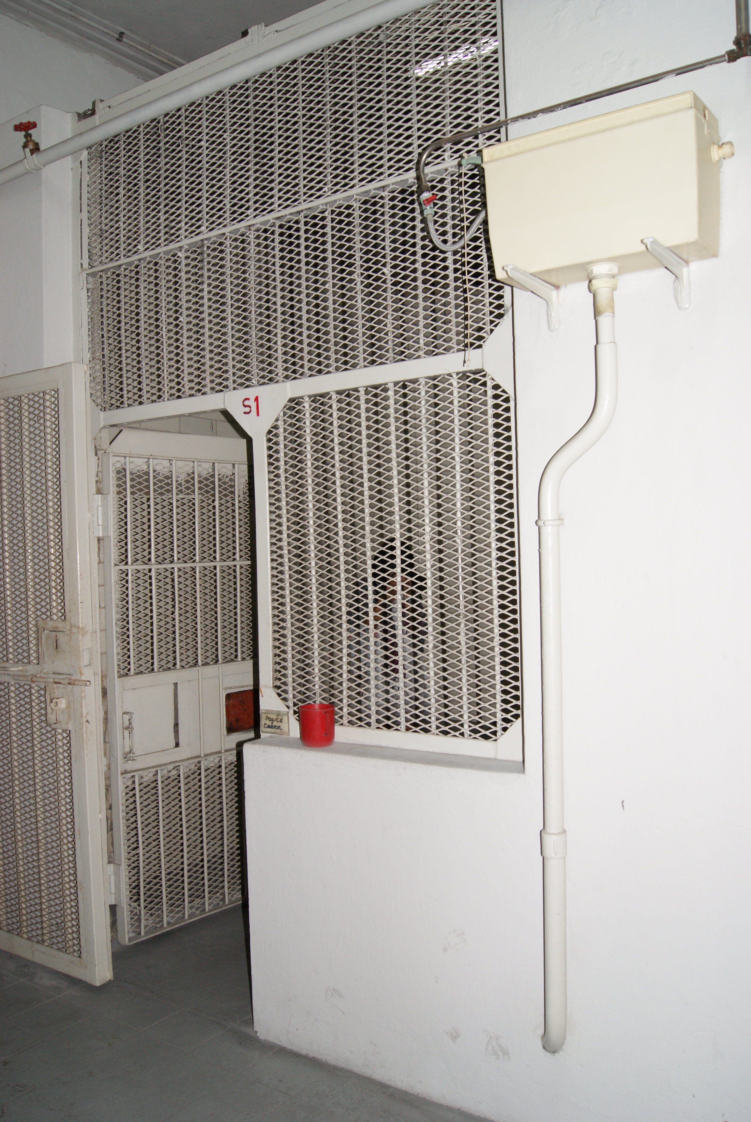 Cell S1 in the lock-up on the ground floor of the Old Supreme Court Building, Singapore.